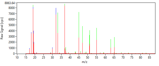 Mass spectrum of the headspace of the sample of kiwifruit obtained using a PTR-TOF MS device (PTR-TOF 1000 Ultra, IONICON Analytik, Austria) with PTR-MS Viewer v. 3.2.3.0 software. Chemical Faculty of Gdansk University of Technology, Poland